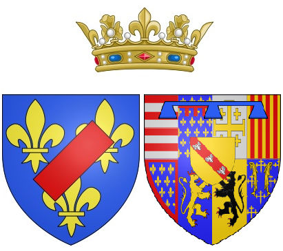 Coat of arms of Françoise of Lorraine as Duchess of Vendôme